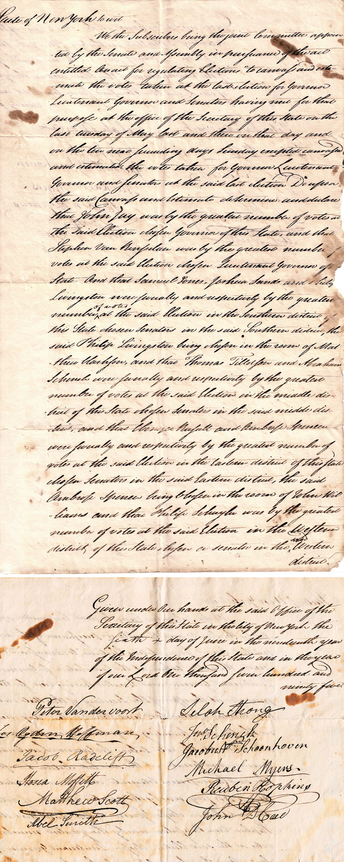 "Certificate of Election of John Jay as Governor of New York" dated June 6, 1795, and signed by the twelve members of the Joint Committee on Elections of the Senate and Assembly of New York (Peter Vandervoort, Josiah Ogden Hoffman, Jacob Radcliff, Hossa Moffitt, Matthew Scott, Abel Smith, Seloh Strong, Joseph Schenck, Jacobus Schoonhoven, Michael Myers, Ruben Hopkins, John D. Case).